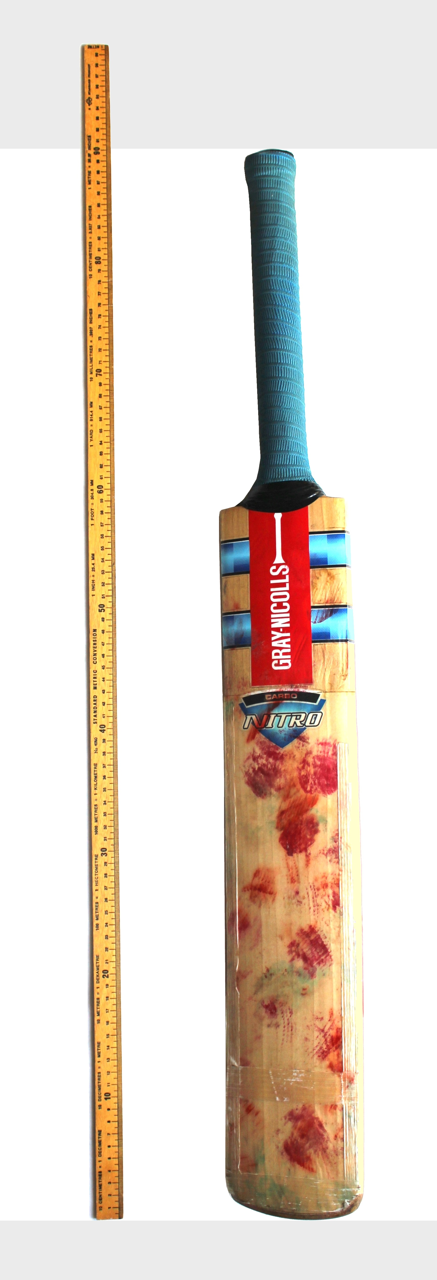 A cricket bat alongside a metre stick. Although Law 6 (appendix E) of the Laws of cricket states that a cricket bat may be not exceed 38 inches/96.5 cm, a standard short handle bat used in adult cricket is about 34 inches/86.5 cm. This image is designed to illustrate one in terms of the other.